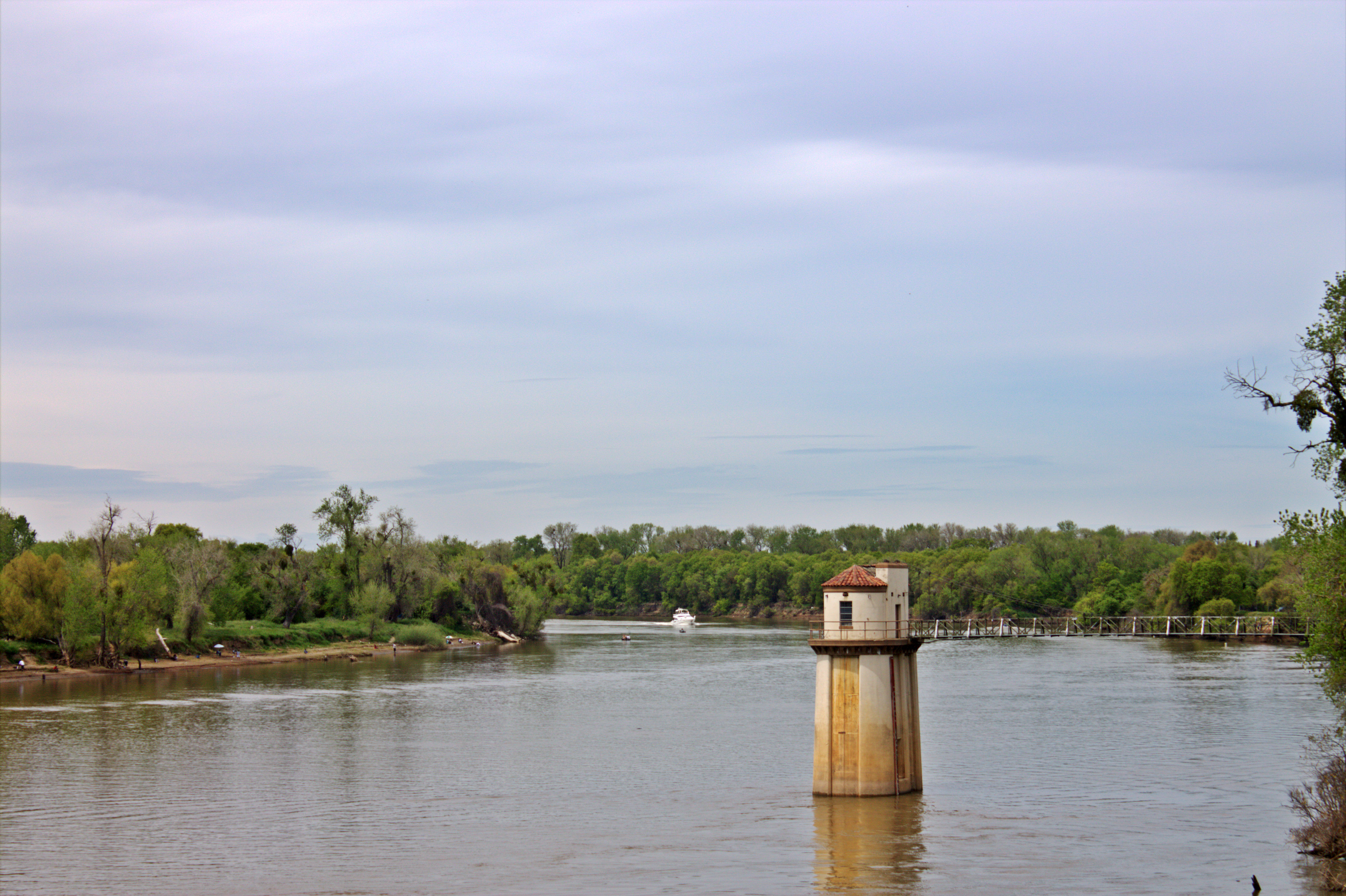 Sacramento River at Sacramento Water Treatment Plant, Sacramento, CA